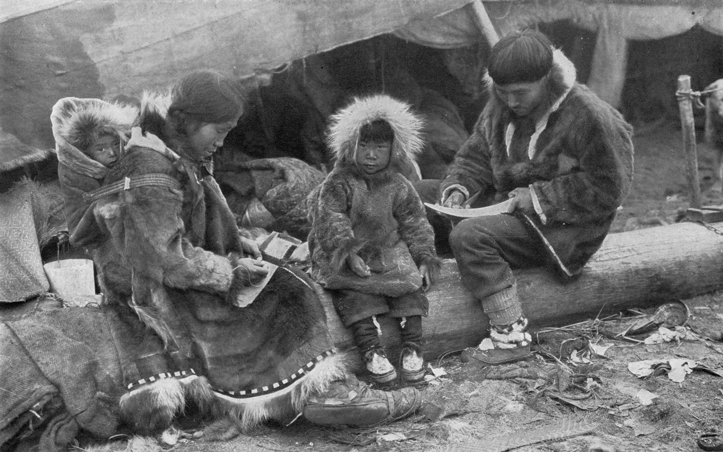 An inuit family (1917) - "AN ESKIMO FAMILY. Tenderness and responsibility in their treatment of children is a virtue of the Eskimo which binds them closer to the brotherhood of civilized peoples."